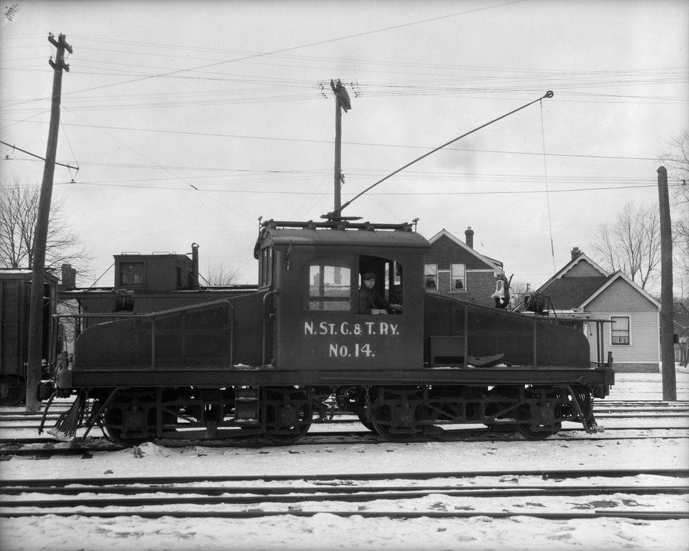 Niagara, St.Catharines & Toronto Railway - Loco No. 14.